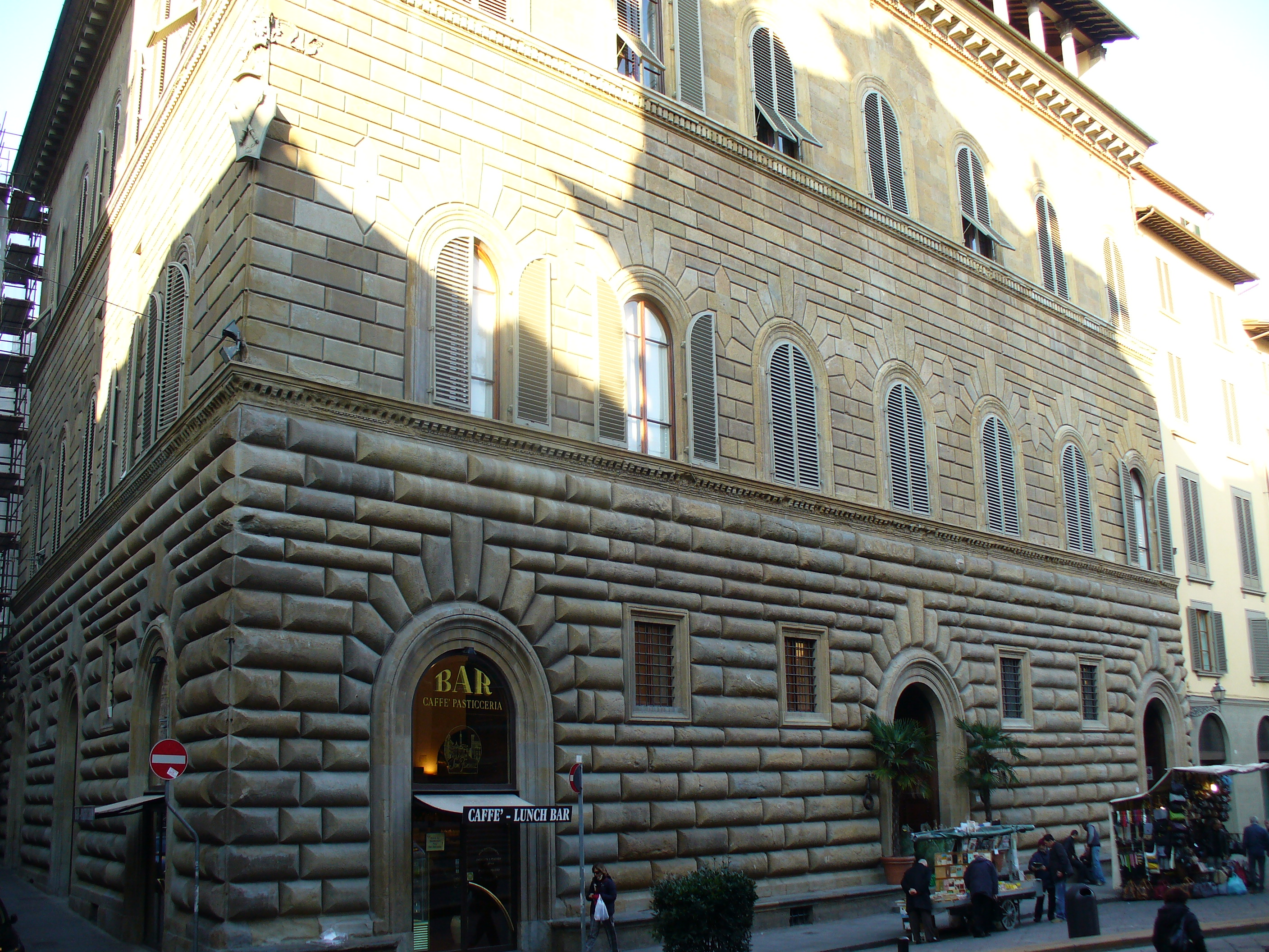 Palazzo Gondi (florence)